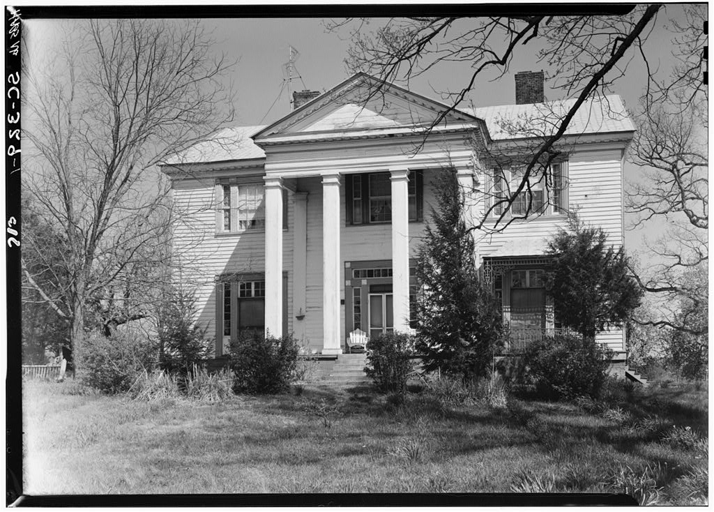 Photographic view of the main elevation of Montpelier, plantation belonging to Samuel Maverick (and later the Van Wyck family), Old Greenville Highway, Pendleton, Anderson County, South Carolina. Photograph from the Historic American Buildings Survey, Library of Congress, Washington, D.C.